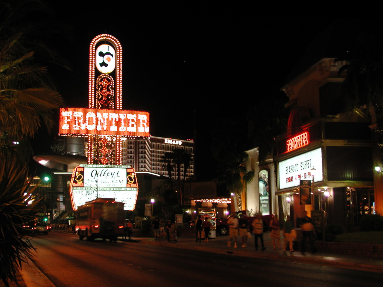 Frontier sign at night